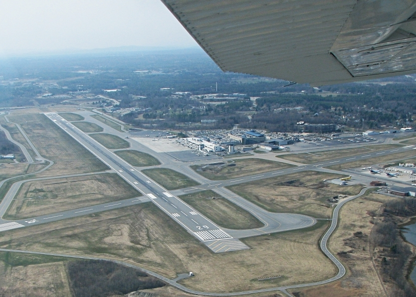 The Portland International Jetport (PWM/KPWM) as seen from the air, looking Westward.